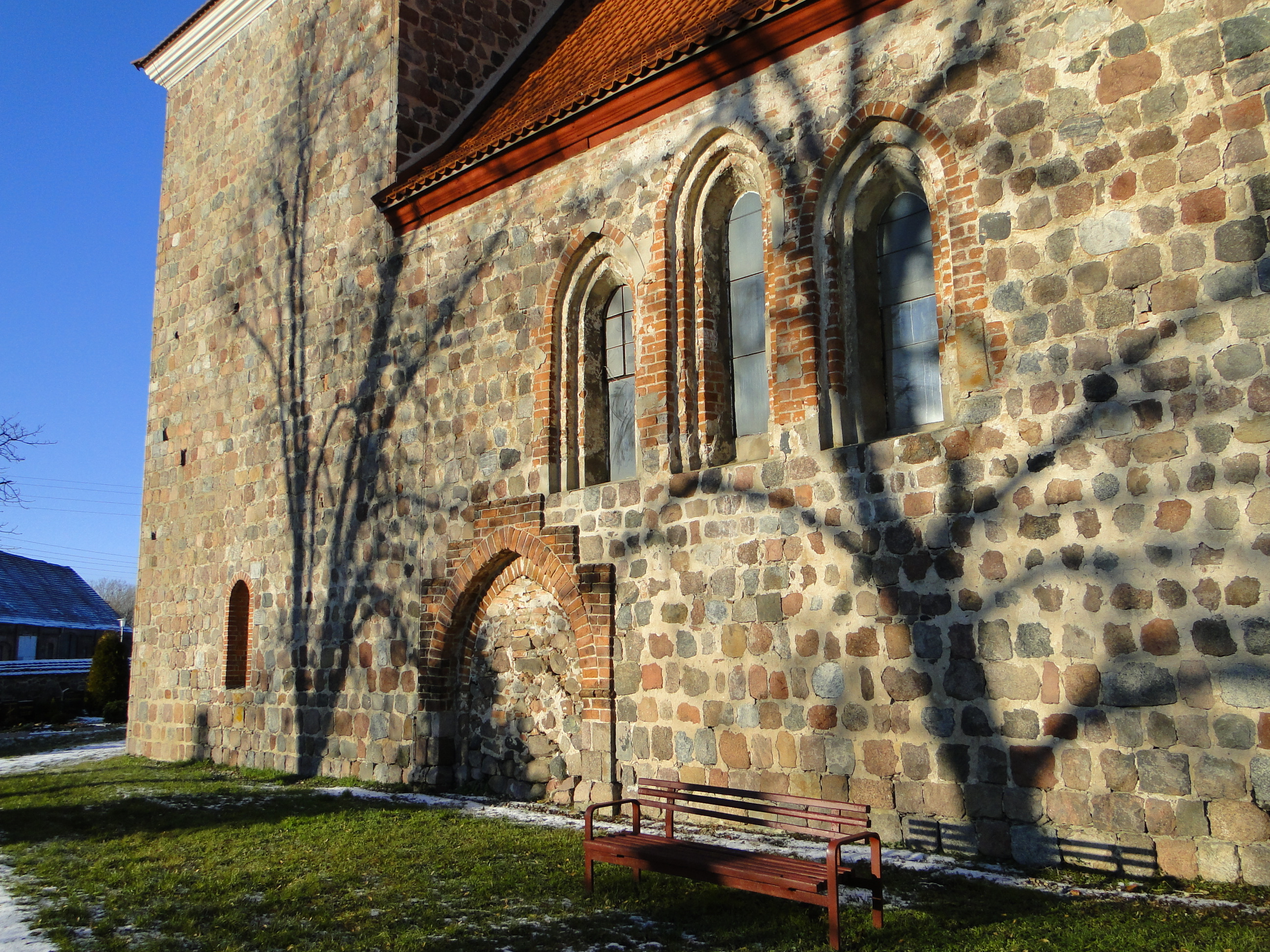 Church in Lübbersdorf, district Mecklenburg-Strelitz, Mecklenburg-Vorpommern, Germany